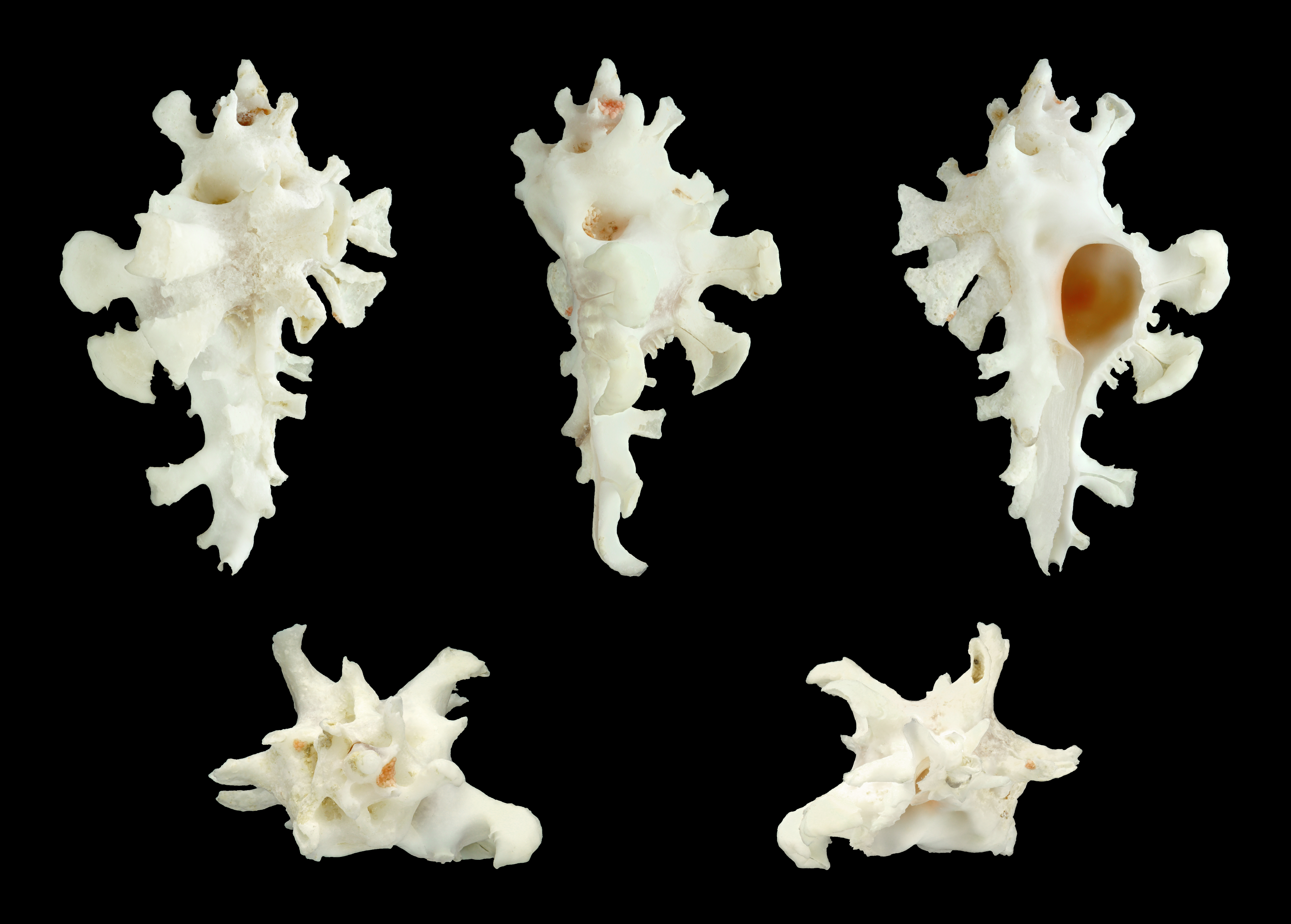 Zambo's Murex; Length 3.0 cm; Originating from Bohol, Philippines; Shell of own collection, therefore not geocoded. Dorsal, lateral (right side), ventral, back, and front view.